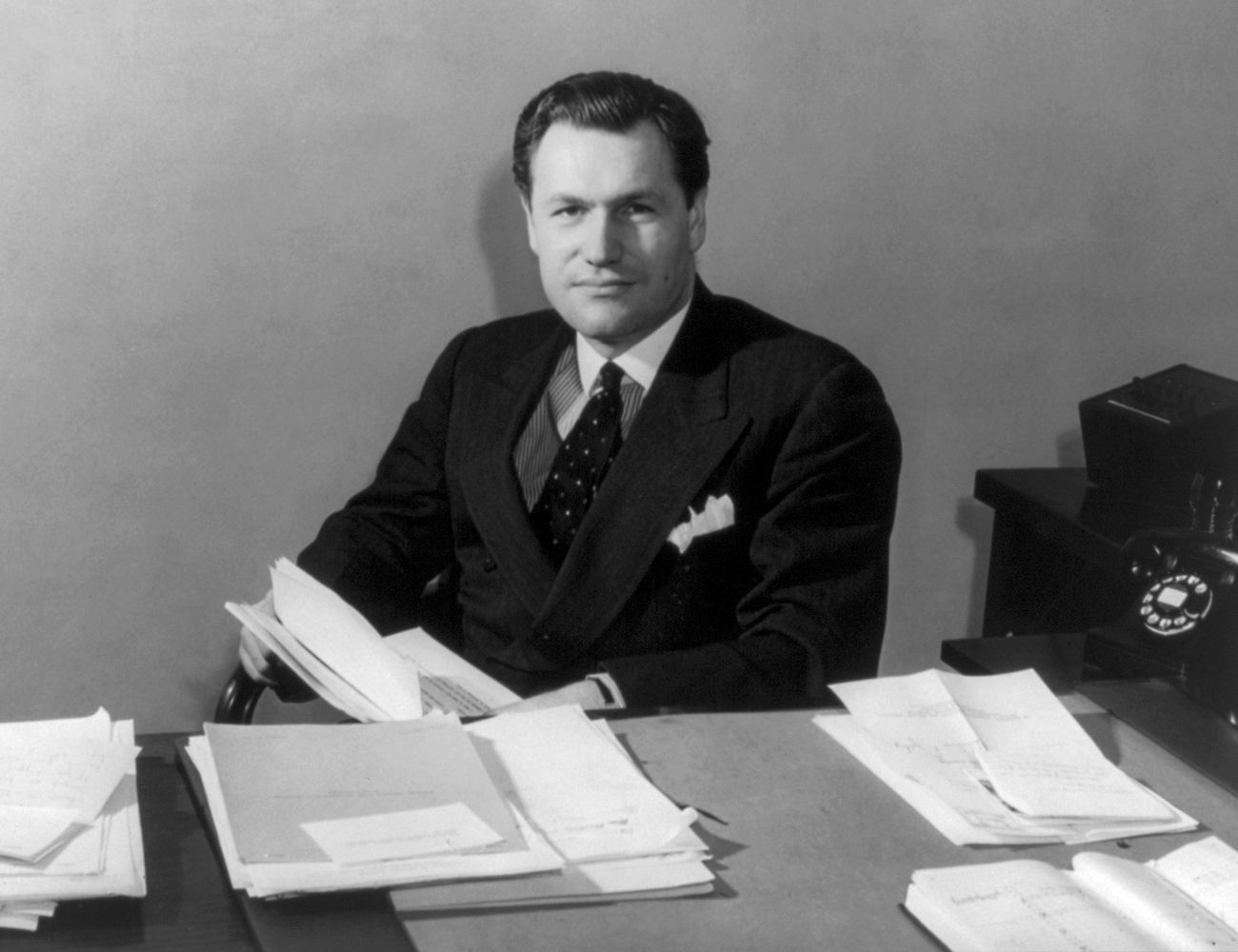 Portrait of Nelson Rockefeller, appointed in August 1940 as head of the Office for Coordination of Commercial and Cultural Relations between the American Republics. On July 30, 1941, the Office of Coordinator of Inter-American Affairs in the Executive Office of the President was formally established and enacted by US Executive Order 8840 by President Franklin Roosevelt, who named Rockefeller as the Coordinator of Inter-American Affairs.